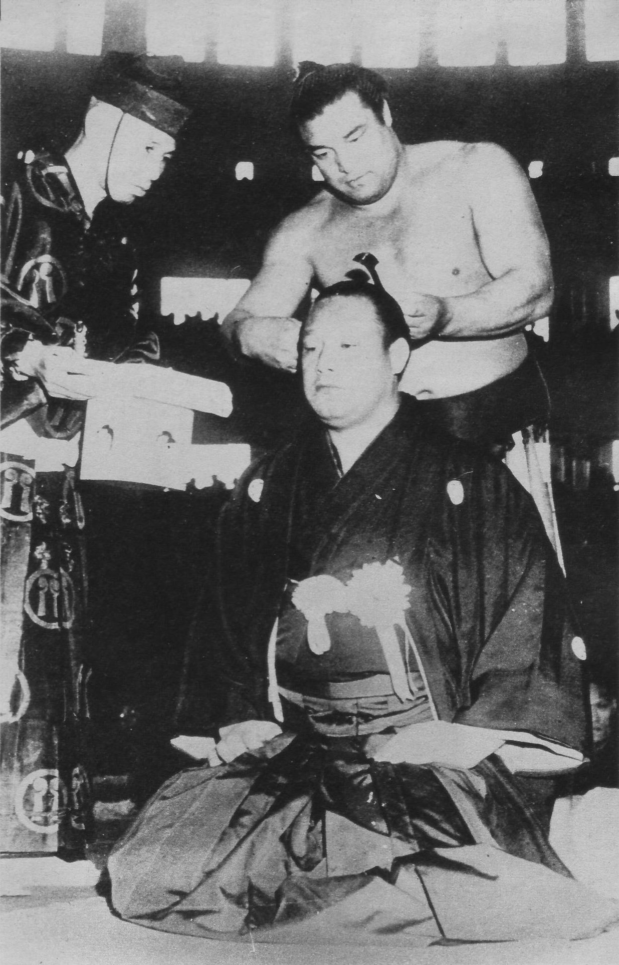 Danpatsu-shiki (Retirement ceremony) from Futabayama Sadaji, 1946.